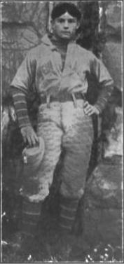 Sewanee All-Southern football player Ormond Simkins c. 1900